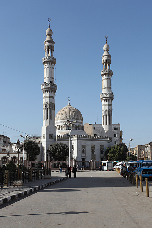 South side of the el-'Arif Mosque, Sohag, Egypt